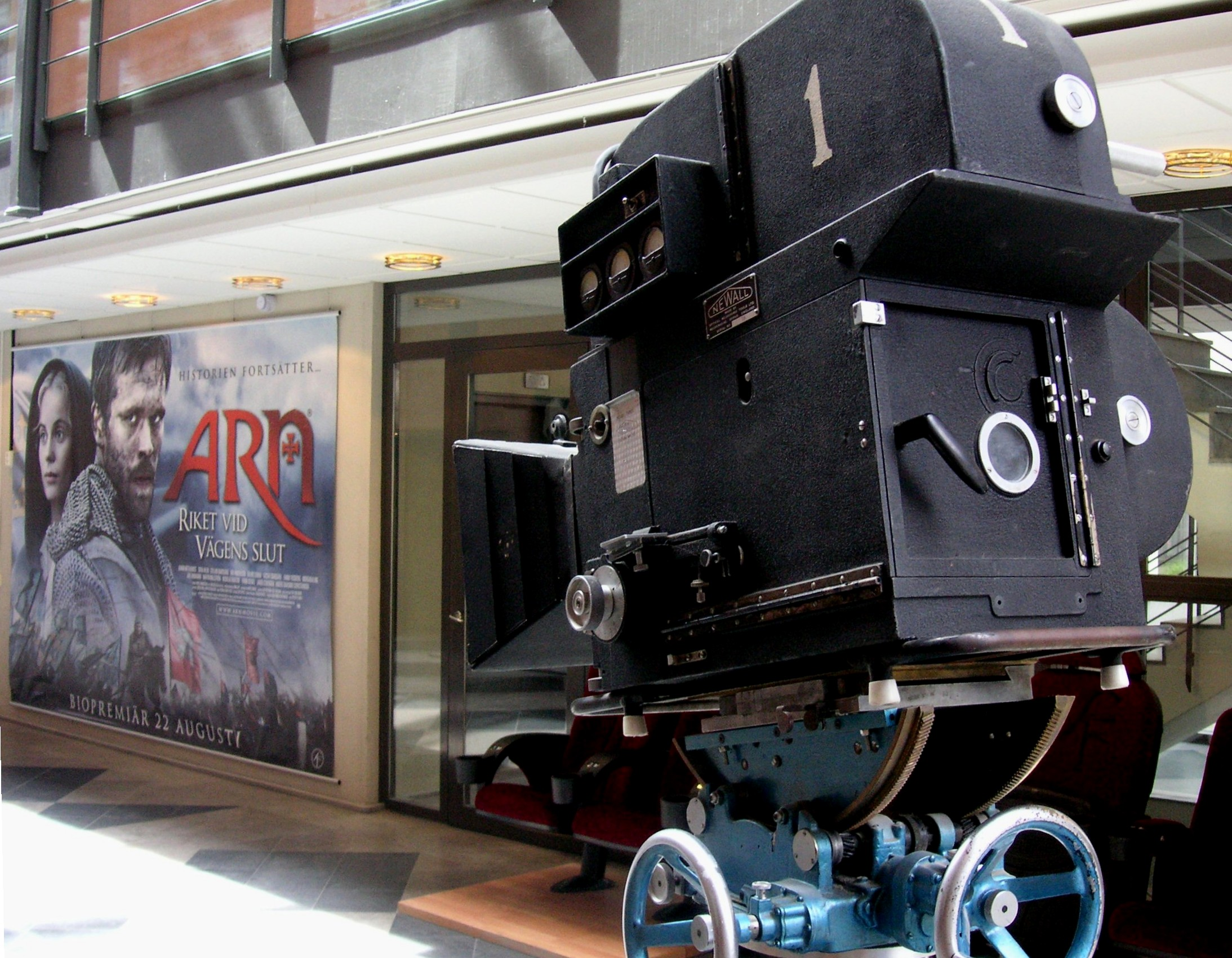 Movie camera in Filmstaden in Solna